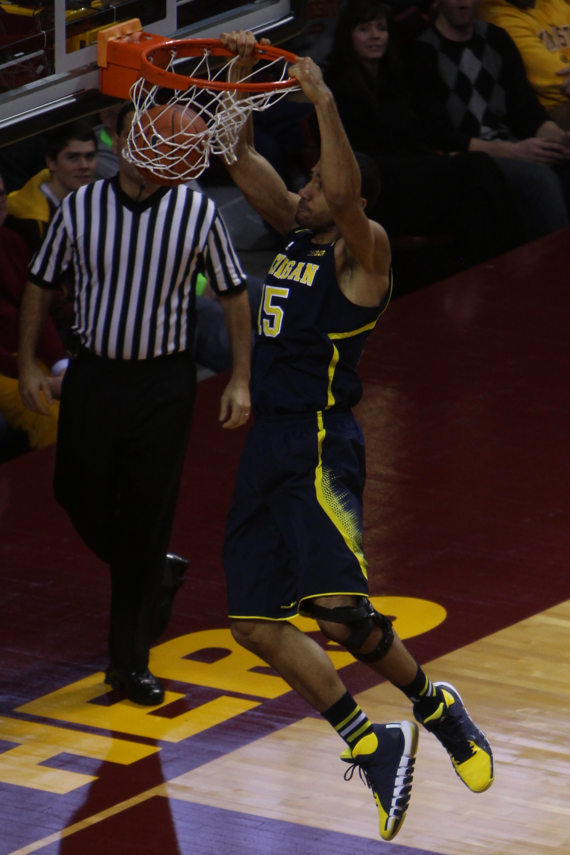 Jon Horford at Williams Arena